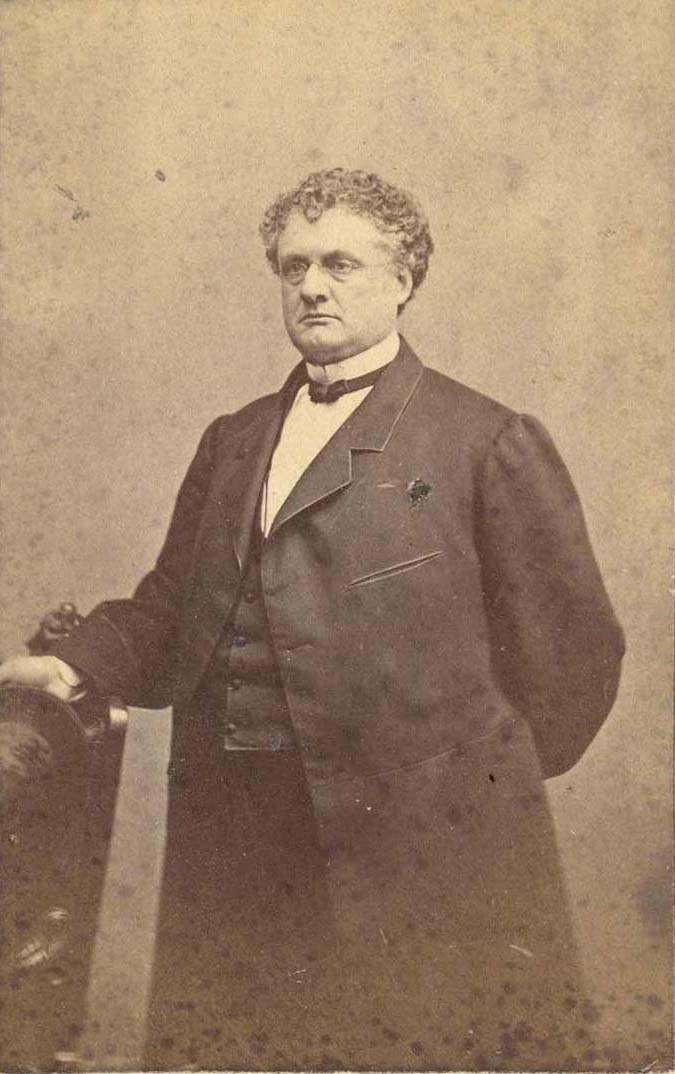 Carte-de-visite studio portrait of John A. Andrew (1818-1867). Backmark of "J. W. Black, Boston".